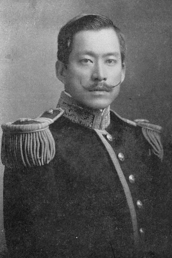 Tomoharu Iwakura